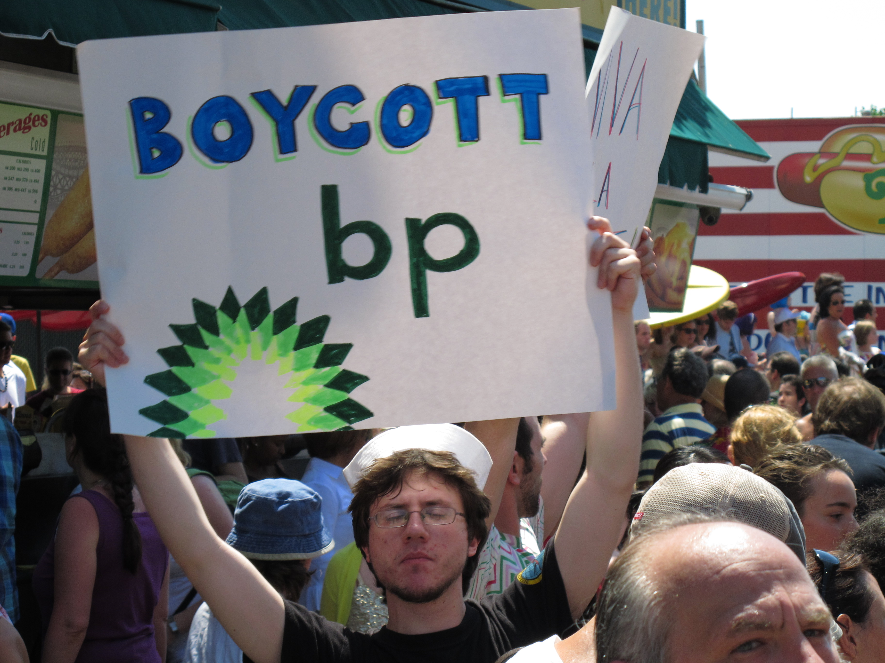 Anti-BP sign, Coney Island Mermaid parade